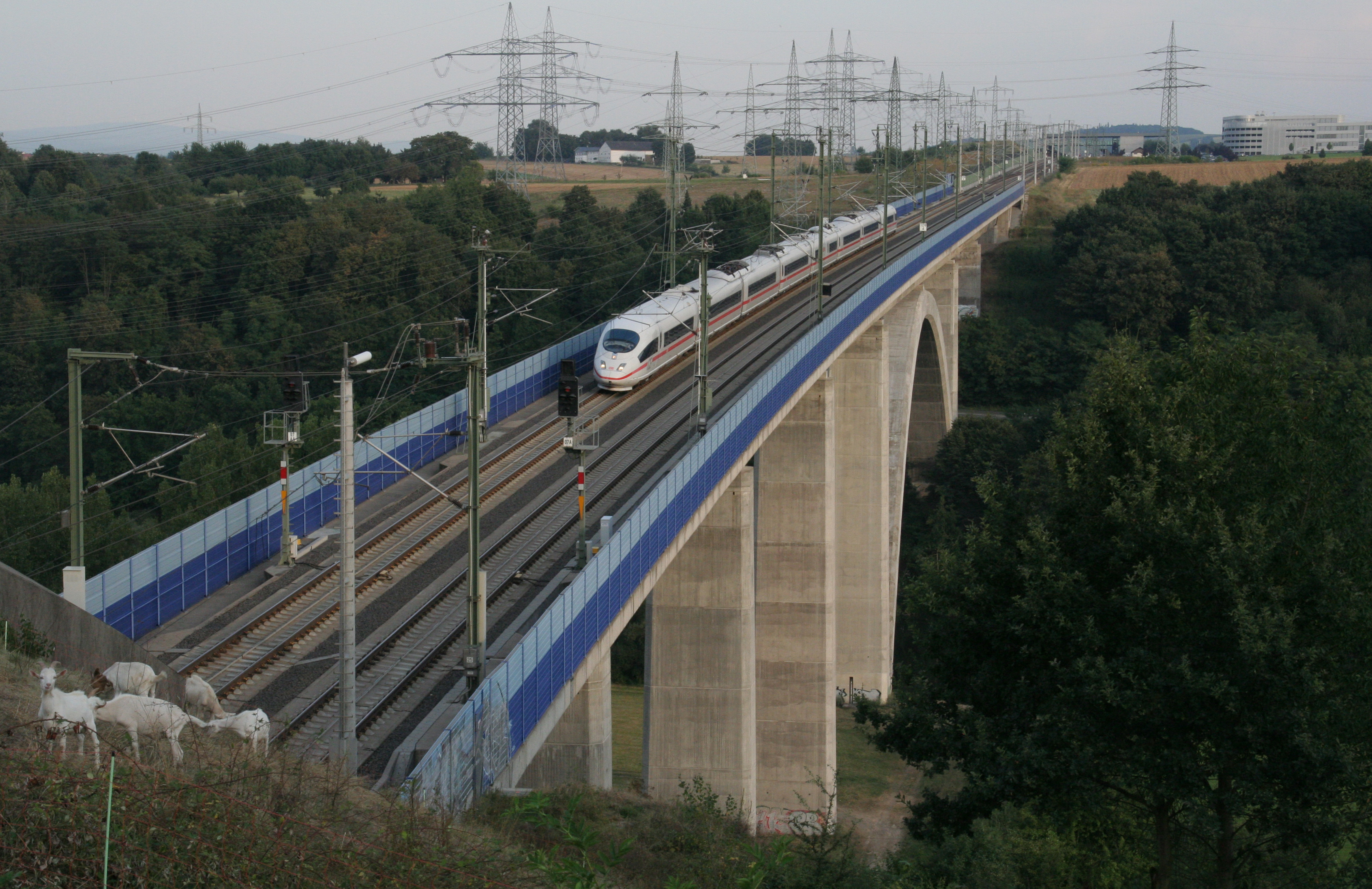 Lahntalbrücke in Limburg, Germany. The bridge is part of the Cologne–Frankfurt high-speed rail line.